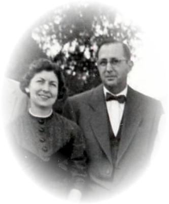 Picture of Judge Roy Winfield Harper and his wife Ruth Butt Harper